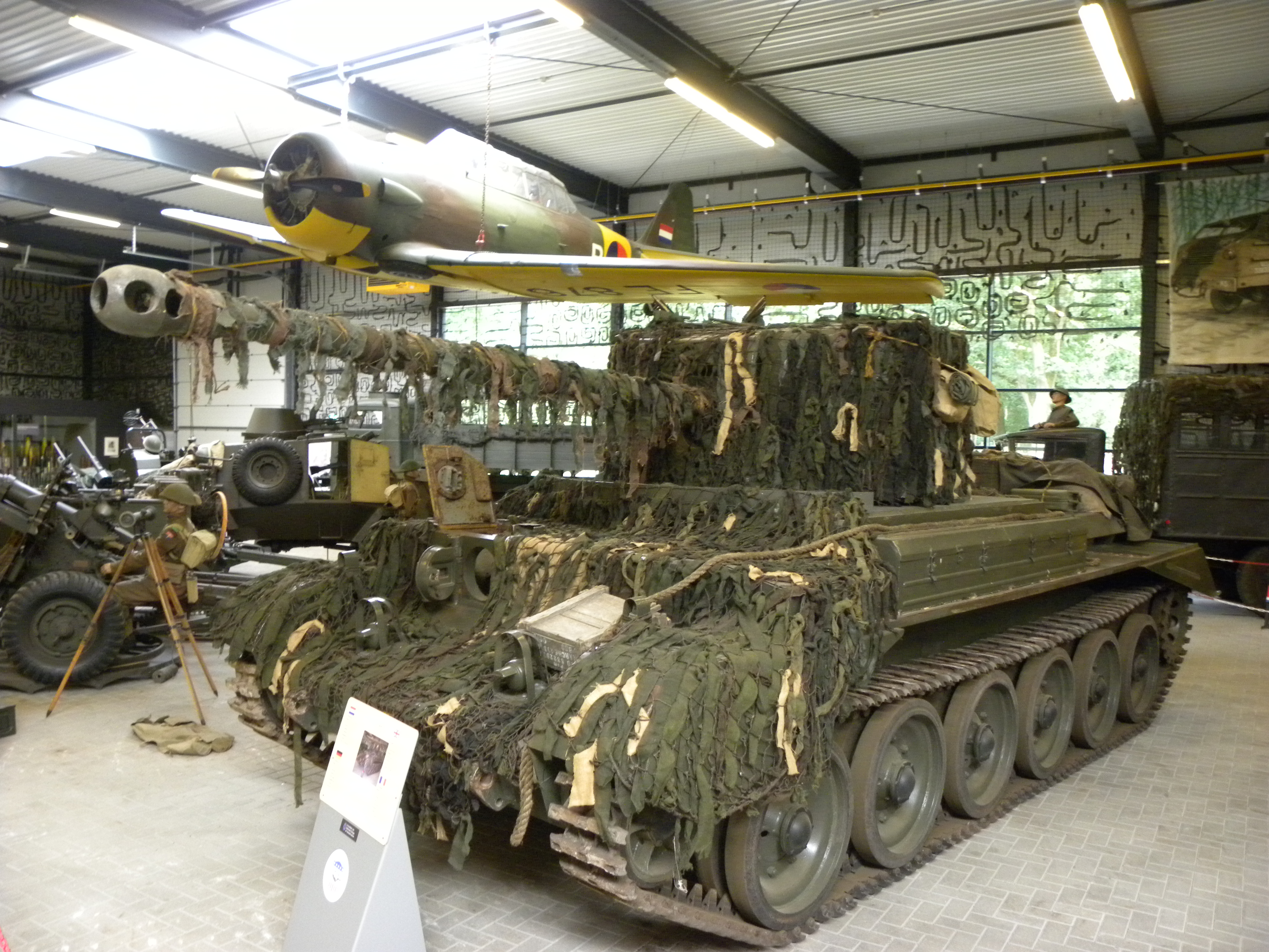 Challenger A 30 from Wo-II